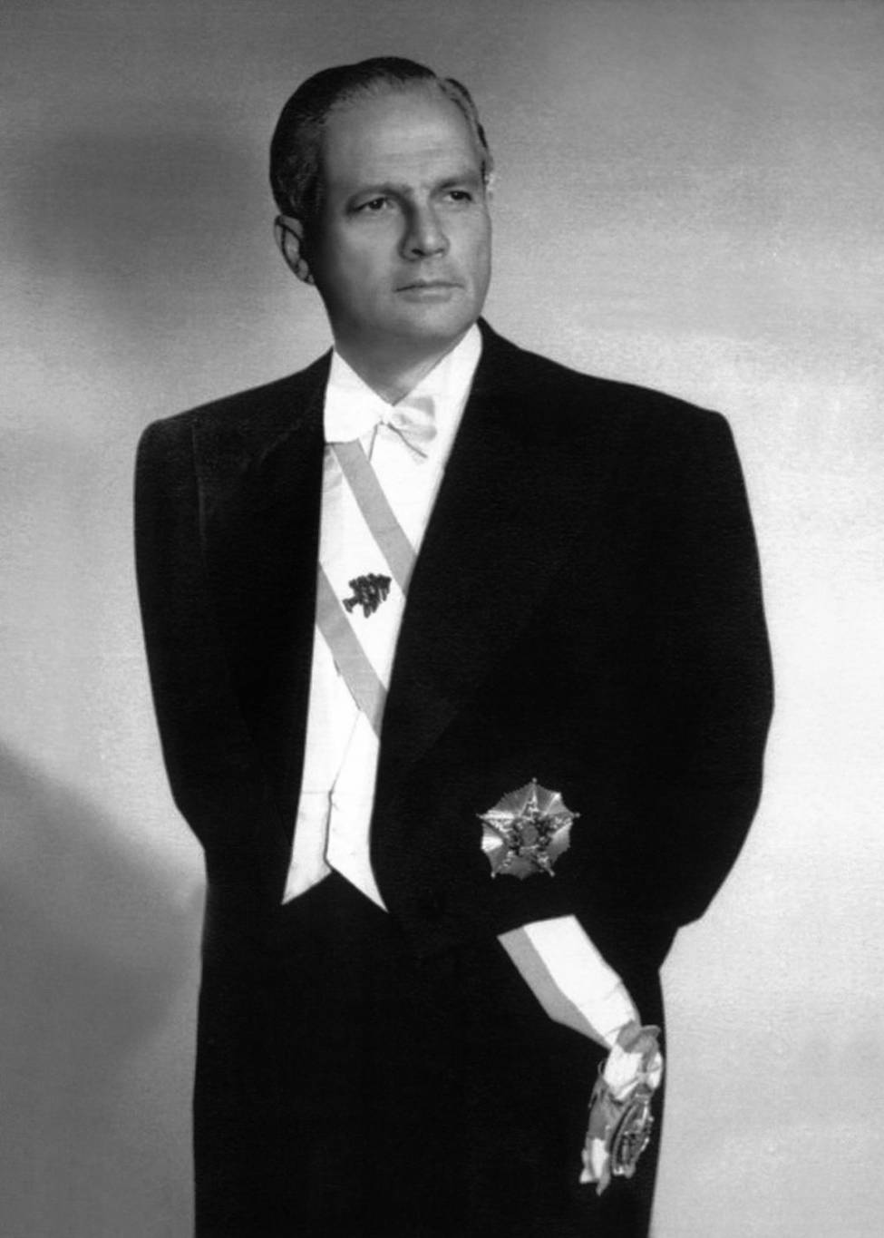 Camille Nemr Chamoun, second president of Lebanon (1952-1958).